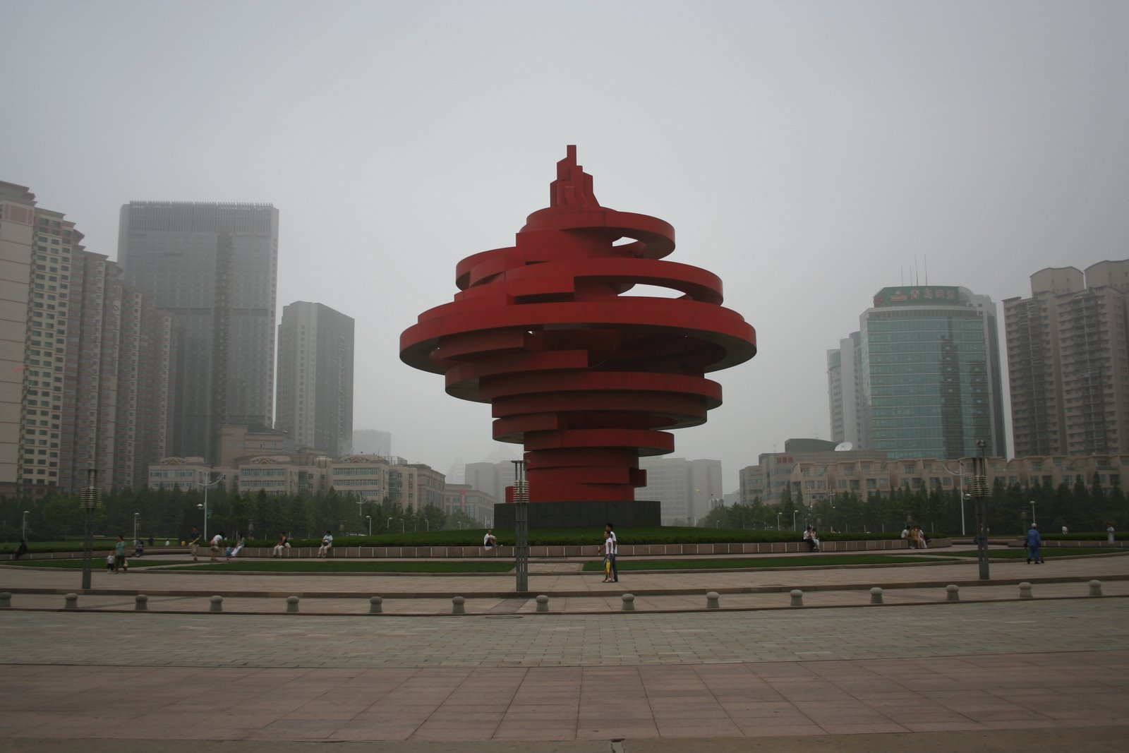 Qingdao's Wu-Si(May 4th) Square